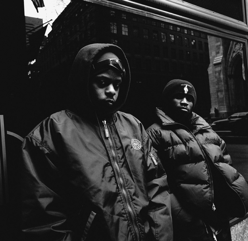 rap group DAS EFX near Rockefeller Center, New York 1997